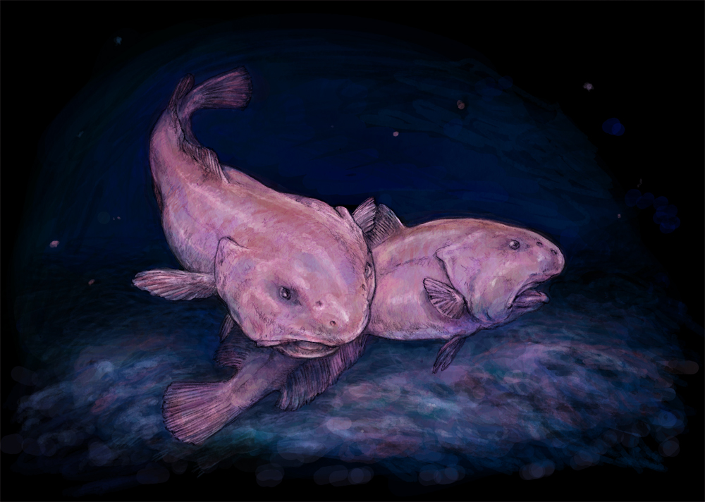 two blobfish in situ